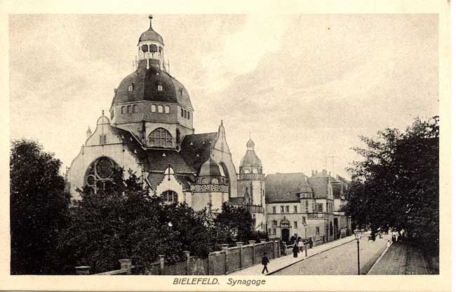 Synagogue of Bielefeld, built in 1905, destroyed by the nazis during the Crystal Nacht.